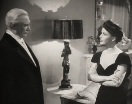 Samuel S. Hinds & Patricia Dane in Grand Central Murder - trailer (cropped screenshot)